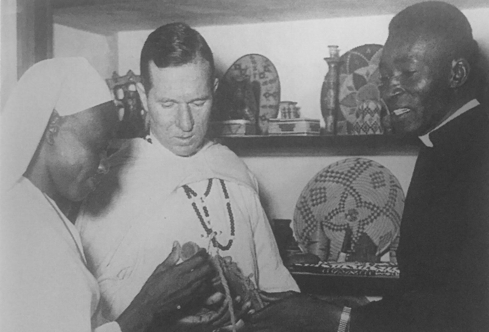 Bishop-elect Peter Dery in the Generalate of the Missionaries of Africa (Rome) on the eve of his episcopal ordination in 1960. With him are a member of the Ghanaian Sisters of Mary Immaculate and Father John McNulty, originator of the credit union movement in Africa.